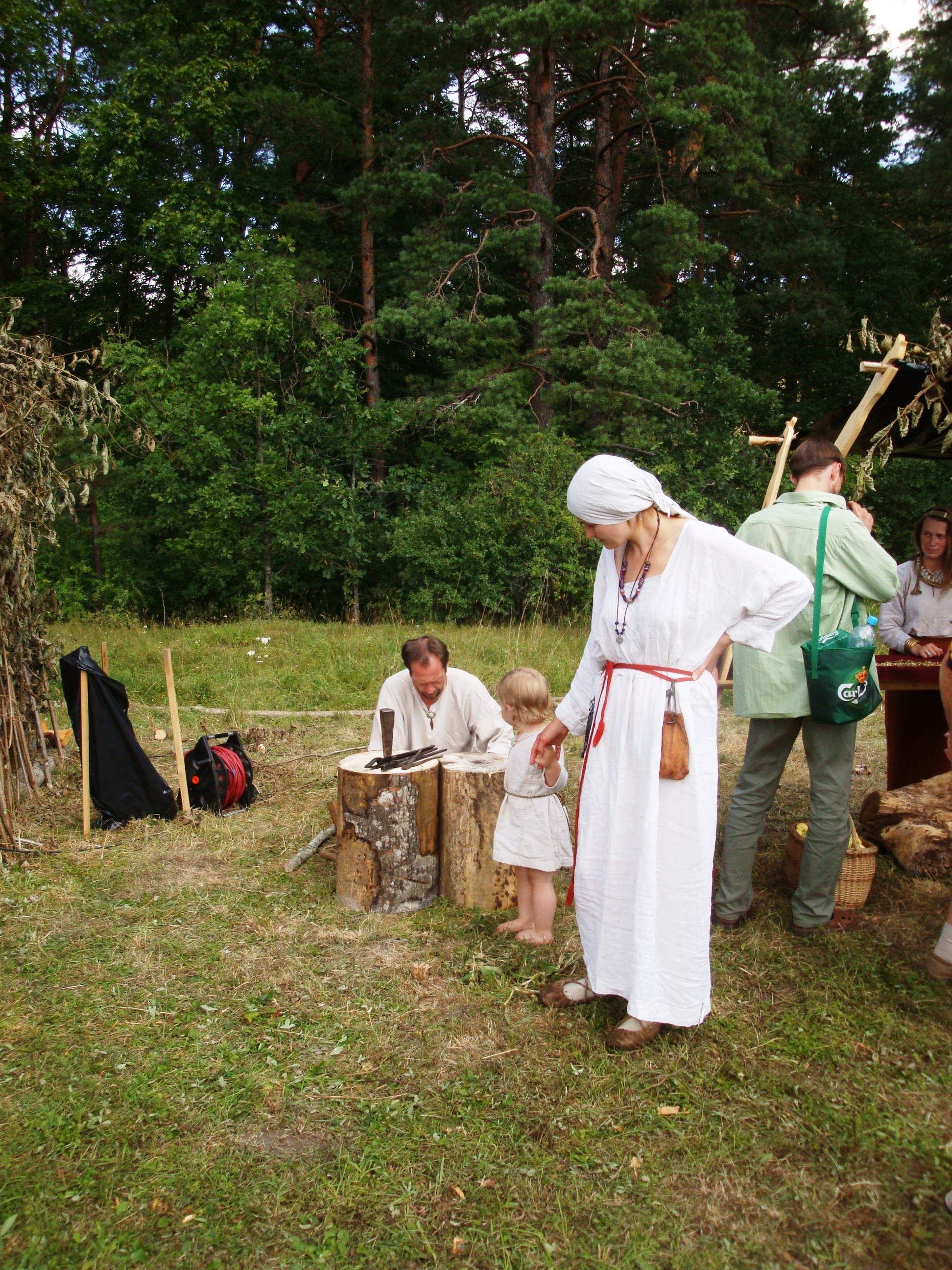 Semigallians fest at Tervete